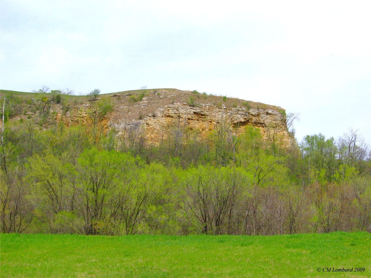 Eastern end of Barn Bluff